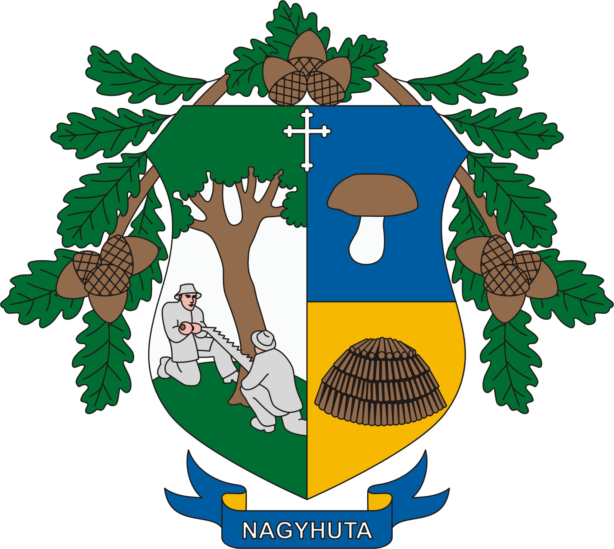 Coat of arms of Nagyhuta, Hungary